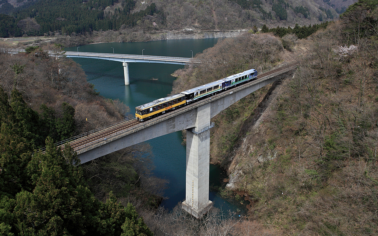 Aizu Railway Oza-Toro-Tembo Train (Type AT-400 + AT-350 + AT-100 DMU) on the Fukasawa Bridge